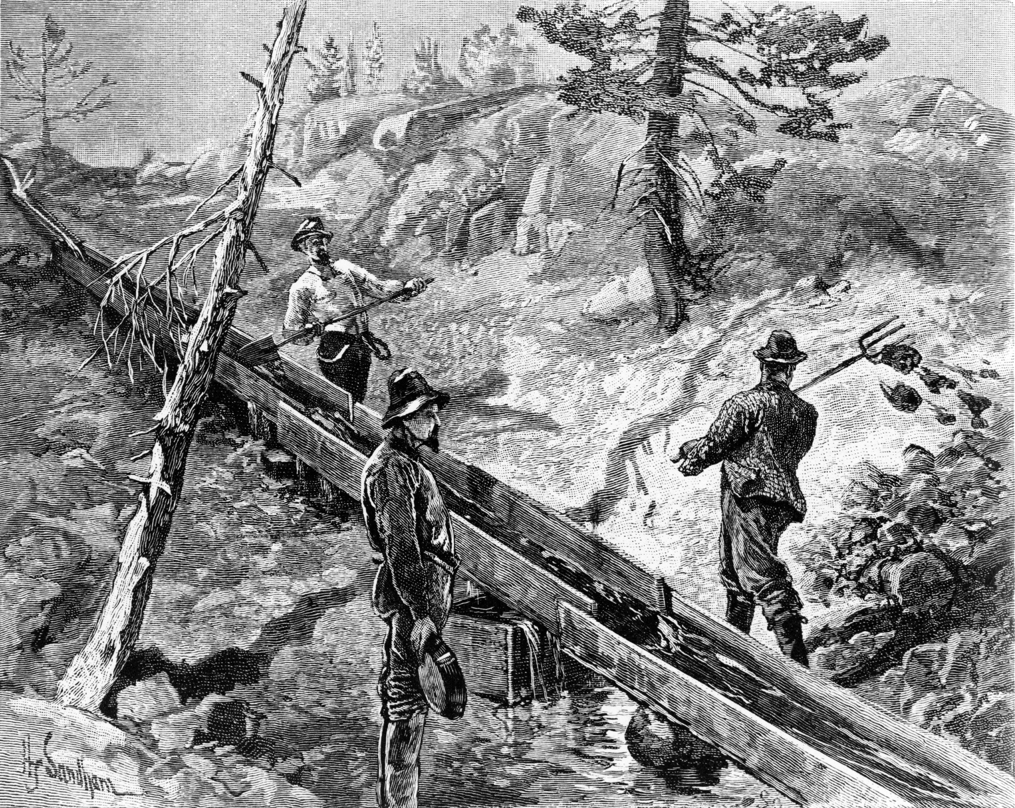 Illustration shows hydraulic mining for gold in California. Published in The Century illustrated monthly magazine, January 1883, p. 324.[1]